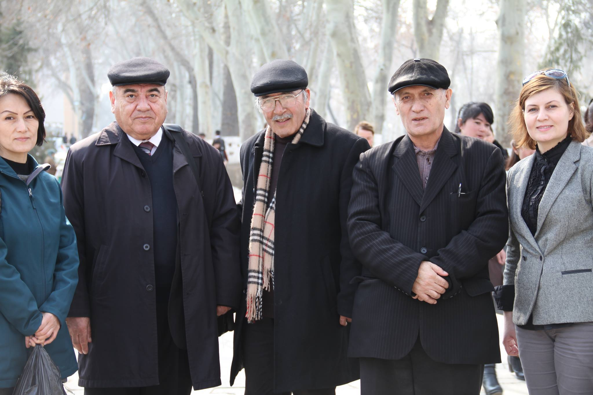 From left to right: Dilshodi Farhodzod, Juma Hamroh, Hazrat Sabohi, Adash Istad and Shahzoda Nazarzoda Тоҷикӣ: Аз чап ба рост: Дилшоди Фарҳодзод, Ҷумъа Ҳамроҳ, Ҳазрат Сабоҳӣ, Адаш Истад, Шаҳзода Назарзода